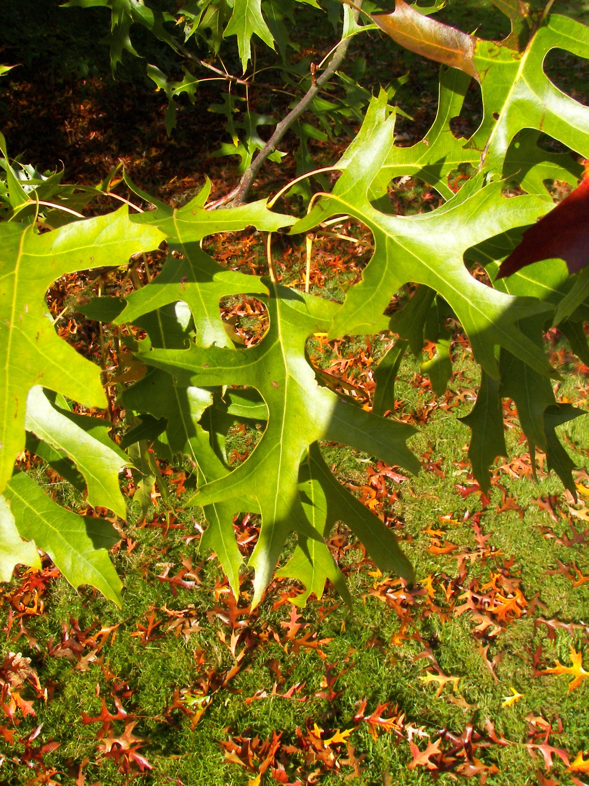 Pin-Oak (Quercus palustris) in the New Botanical Garden Marburg, Hesse, Germany